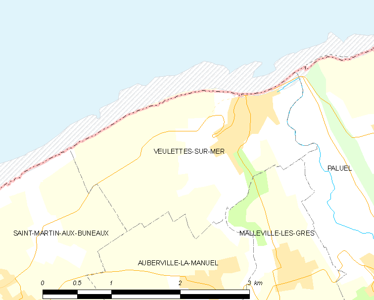 Map of French municipality Veulettes-sur-Mer